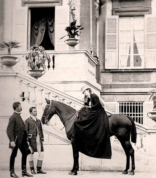 Princess Margherita of Savoy (future Queen of Italy) at the Royal Palace of Racconigi